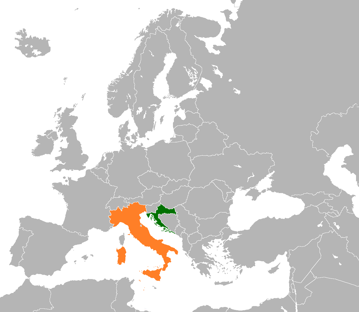 Croatia-Italy locator map. I made this map out of a licence free blank map of Europe.